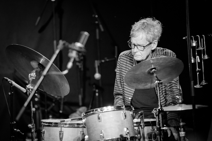 Jon Christensen with Stenson/Christensen/Ljungkvist in Energimølla. The concert was part of Kongsberg Jazzfestival and took place on 07. July 2018 in Kongsberg. Lineup:Bobo Stenson (piano)Jon Christensen (drums)Fredrik Ljungkvist (saxophone and clarinet)